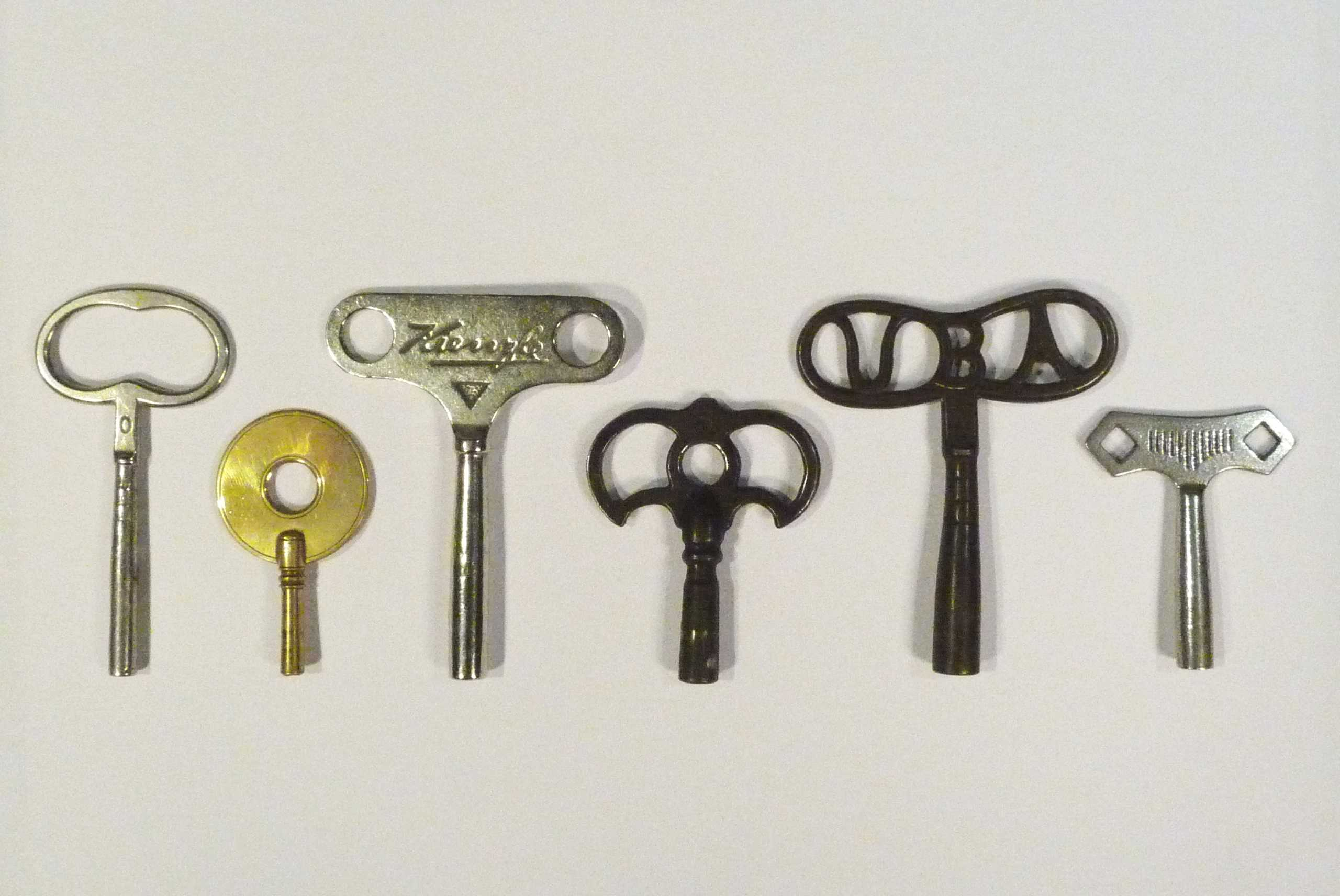 Old clock keys (about 1900 - 1960)